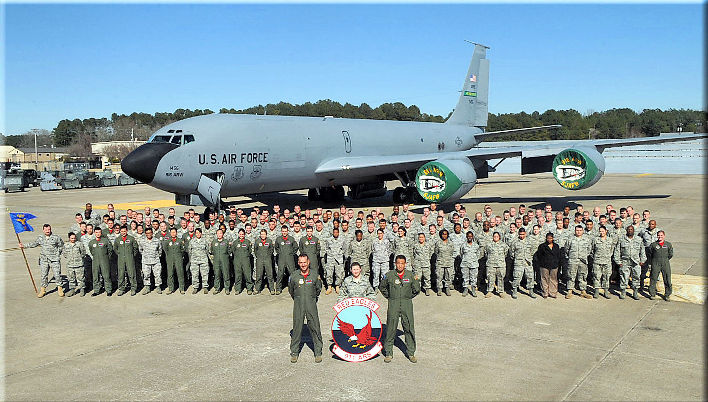 The 911th Air Refueling Squadron. (USAF photo courtesy of the 911ARS)